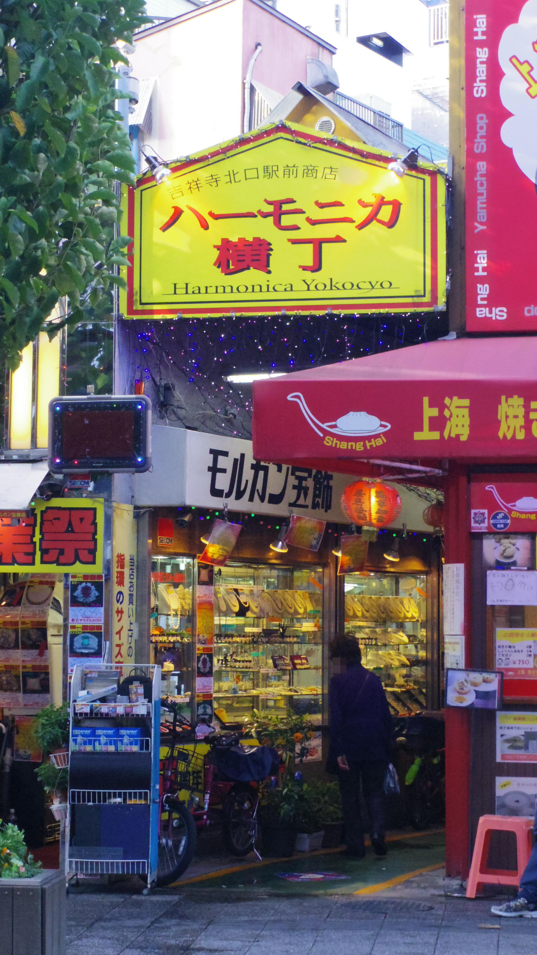 Harmonica side street by Kichijoji, Tokyo.